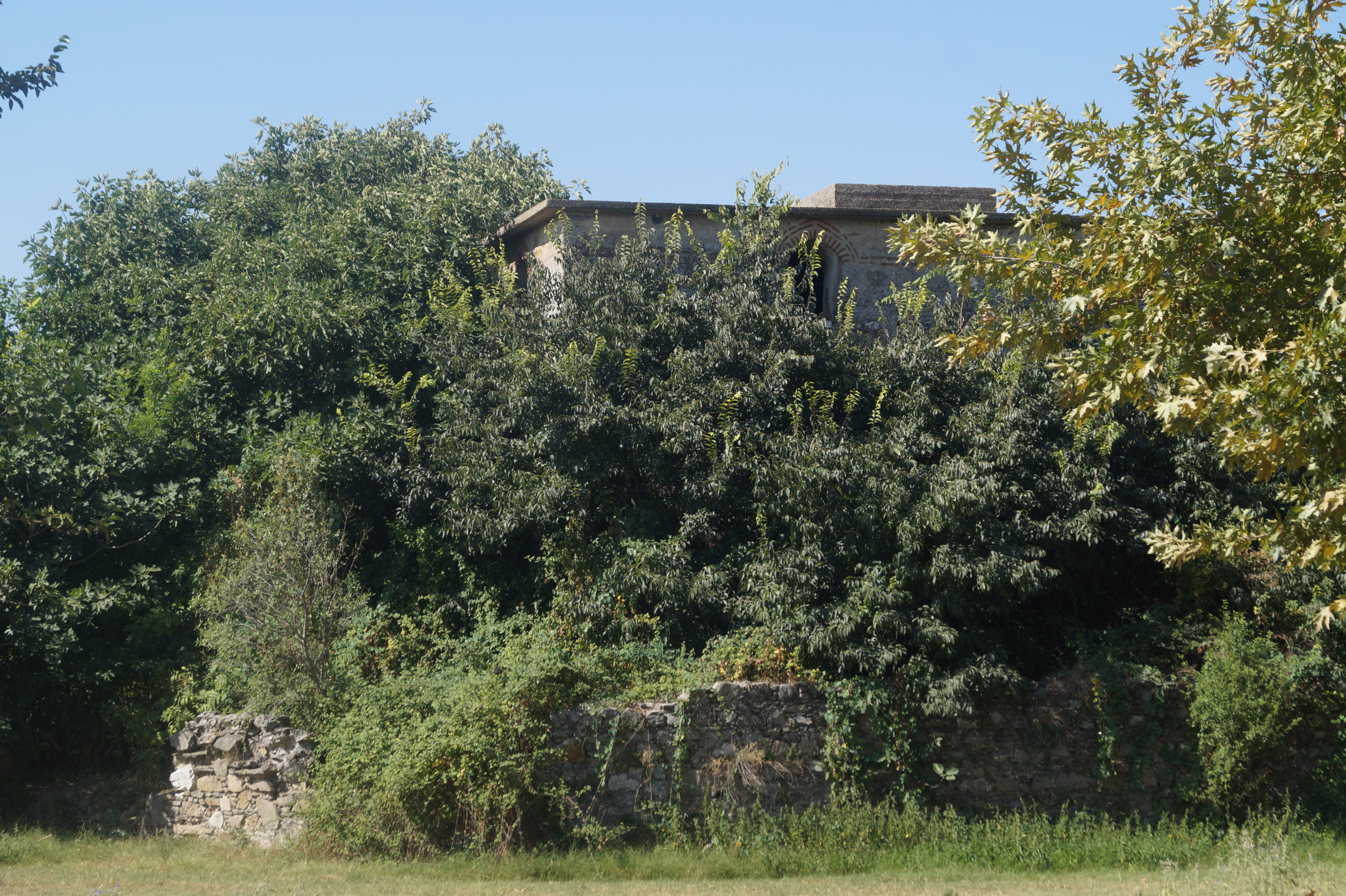 Apollonia, Makedonia, Greece: Ottoman house.